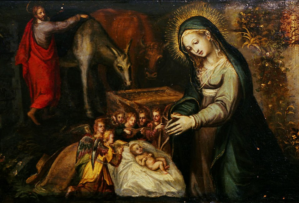 Nativity (1575) by Vasco Pereira Lusitano. It hangs in the Museu Nacional de Arte Antiga, Lisboa, Portugal.